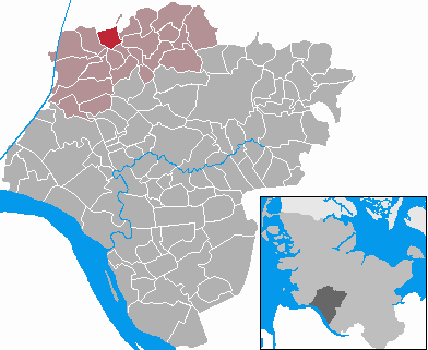 This map shows the area of the municipality Bokhorst in the Kreis (district) Steinburg, Schleswig-Holstein, Germany.